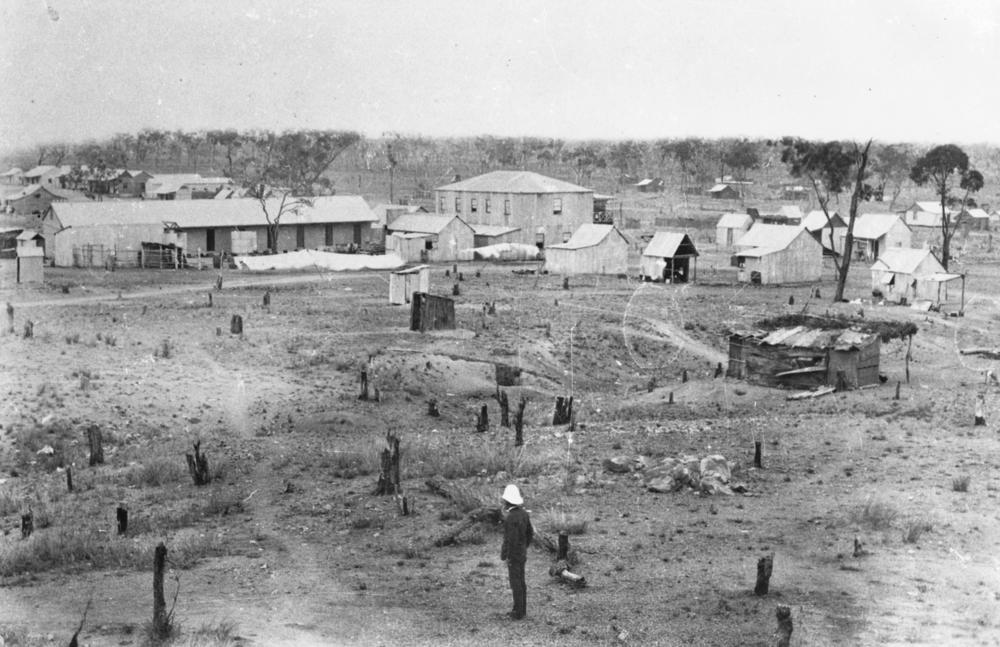 View of Black Jack, in the Charters Towers region of Queensland, ca. 1889